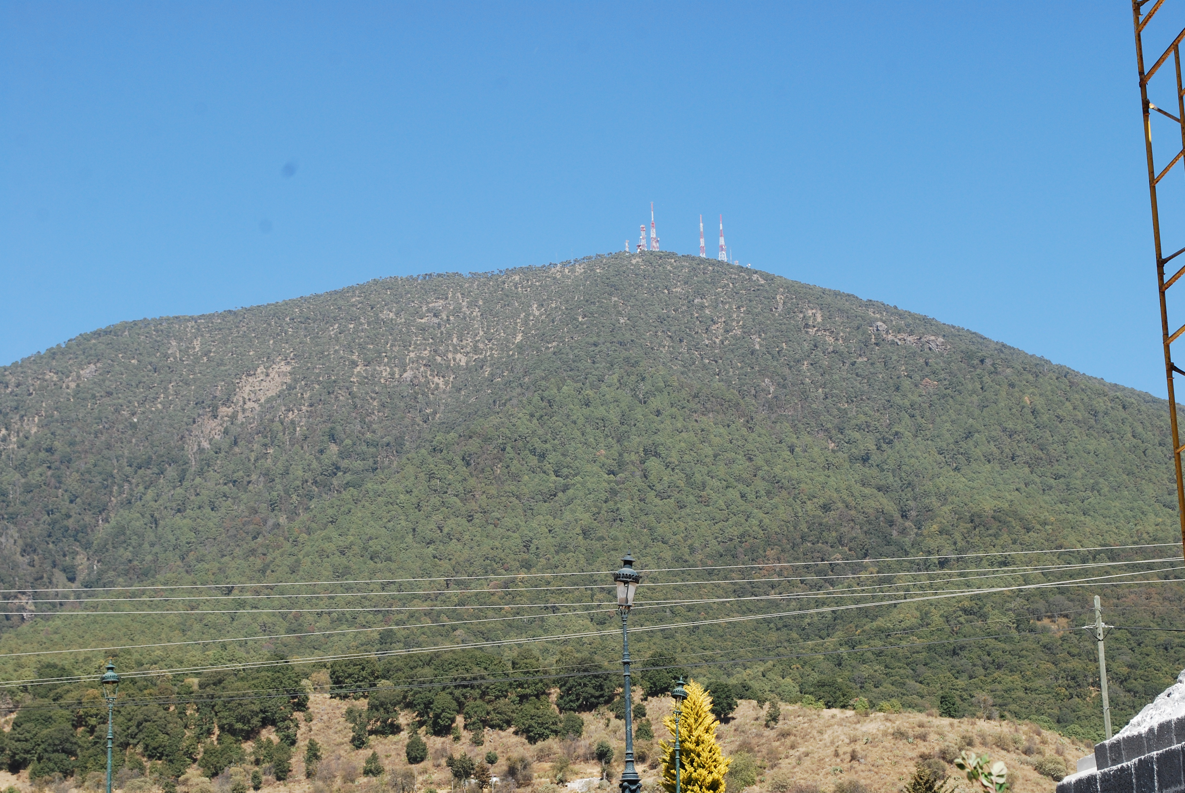 View of the Jocotitlan volcano in Jocotitlan, Mexico State, Mexico